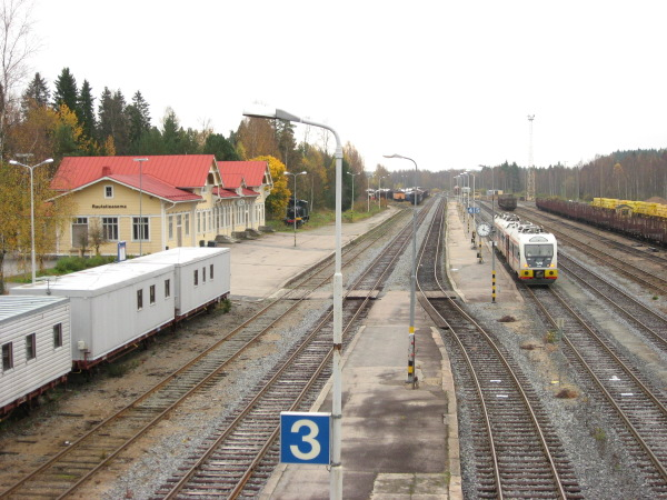 Haapamäki railway station, Keuruu, Finland